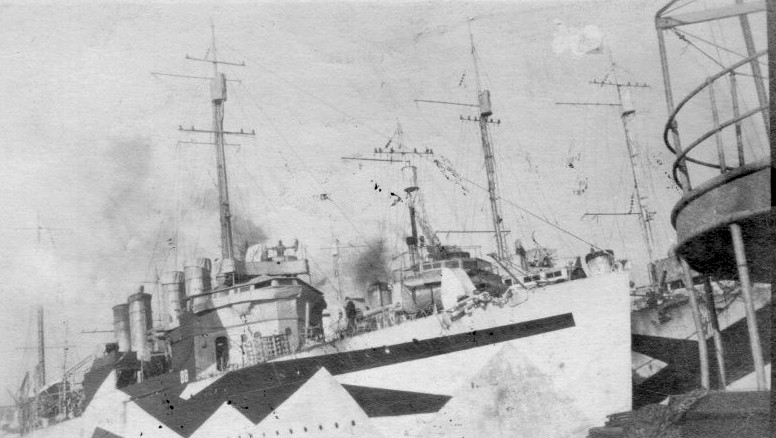 American Wickes class destroyer USS Robinson (DD-88). Was transferred to Britain in 1940 and became HMS Newmarket (G47).